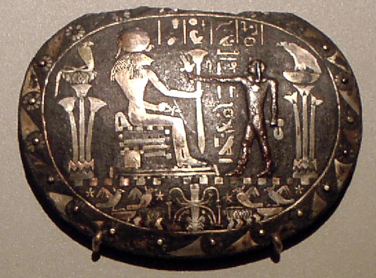 Part of a menat (a type of ritual necklace) depicting Haries Standing in front of the goddess Sehkmet, flanked by the gods Wadjet and Nekhbet (symbols of lower and upper egypt respectively). Catalog number: 23733. Circa 870 BC. Image taken at the Altes Museum, Berlin (part of the Ägyptisches Museum Berlin collection).